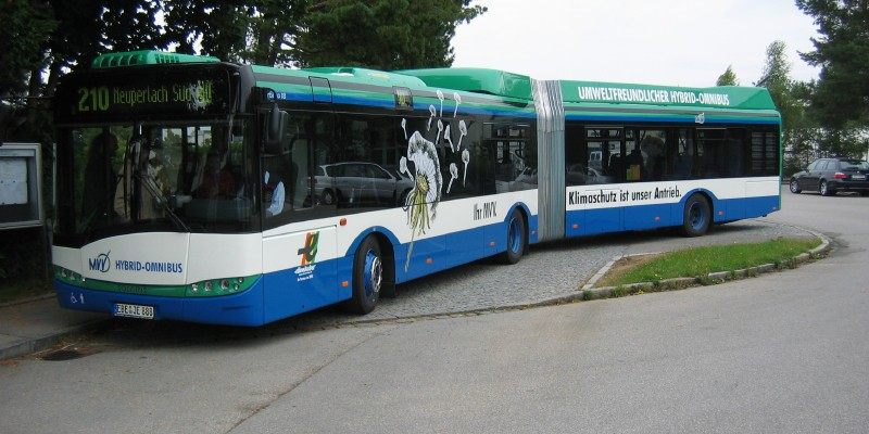 Solaris Urbino 18 Hybrid (Allison), 2nd generation, EBE-JE 888, Ettenhuber. Village Glonn. Year built 2008.